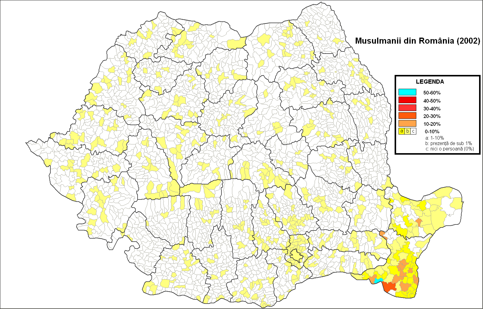 The distribution of the Muslims in Romania (census 2002)